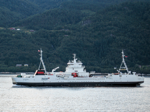 Car ferry "Gloppen" crossing Sognefjorden.